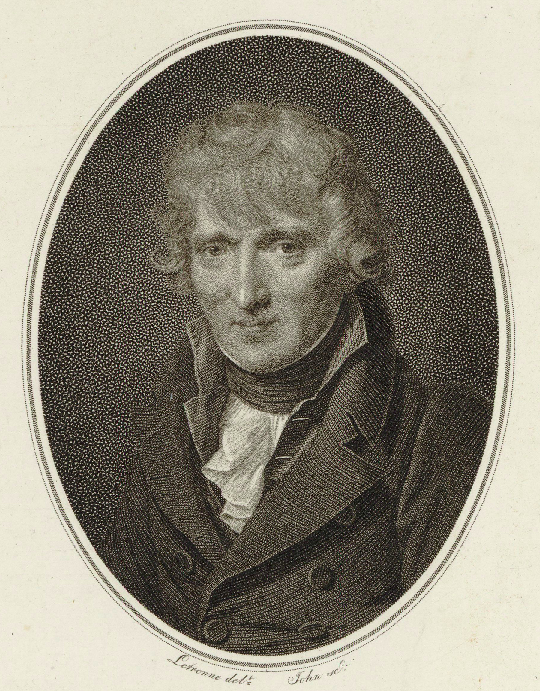 Czeck/Austrian pianist and composer Josef Gelinek (1758-1828) by Friedrich John (?-?) after Louis René Letronne (1790-1842).